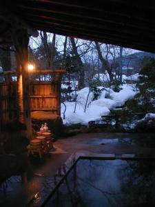 Outdoor pool at Naruko Onsen, Japan.